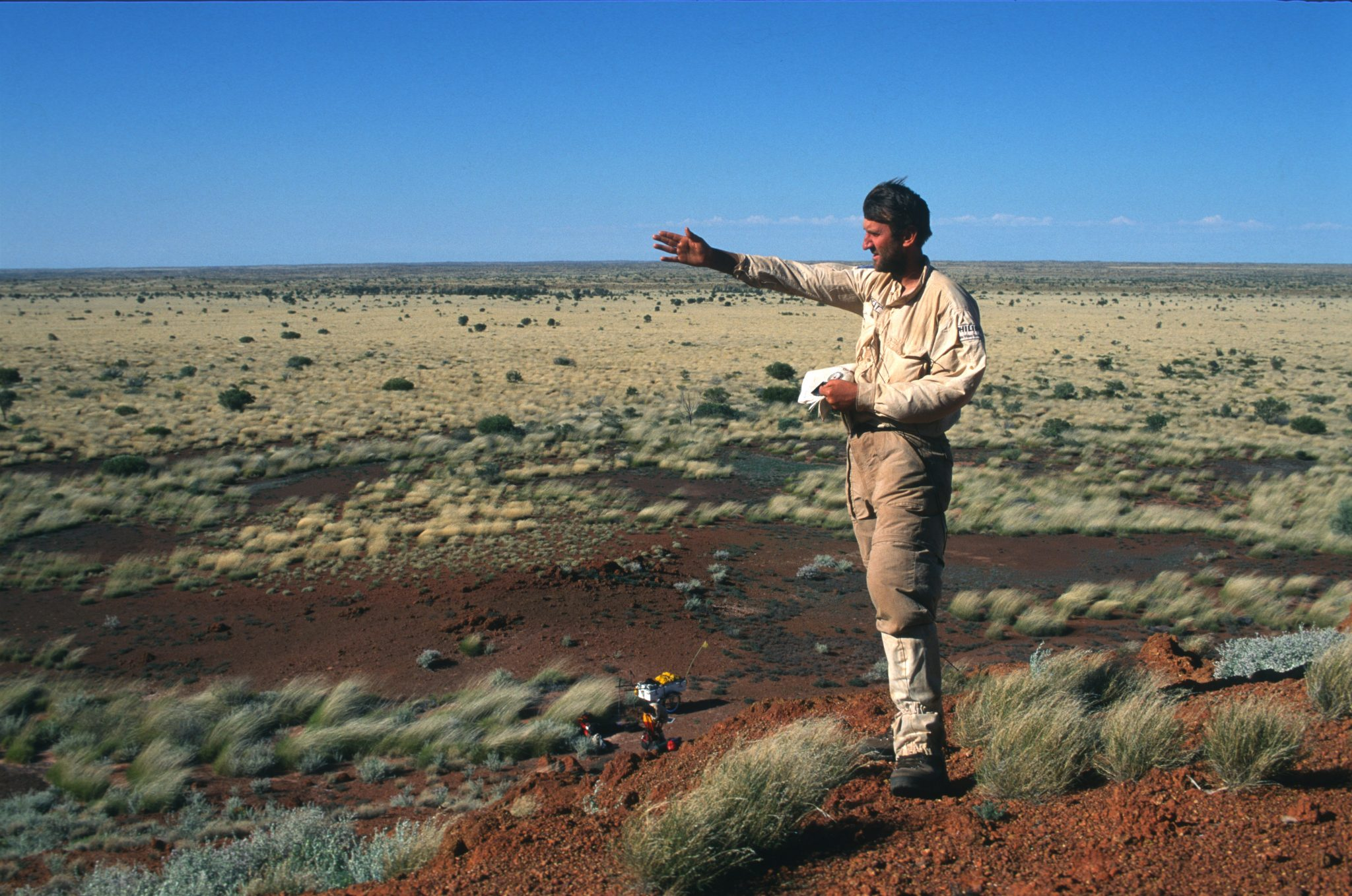 Marek Kamiński during an expedition through Gibson Desert